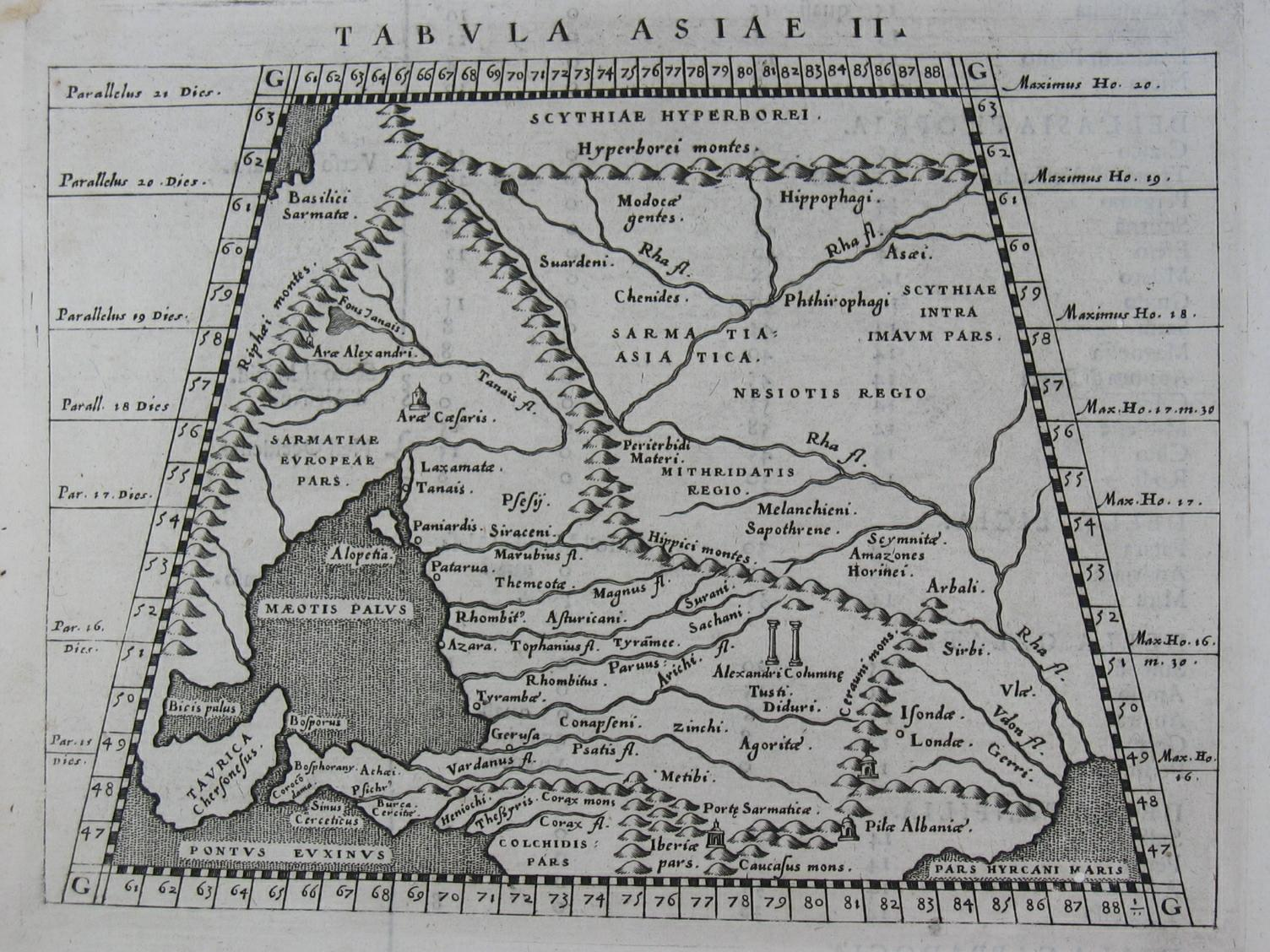 Ptolemaic map from 1598 - Tabvla Asiae II - Scythiae Hyperborei.